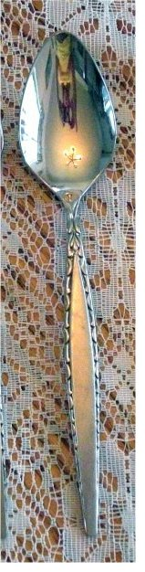 A stainless steel teaspoon made by Oneida: Venetia Pattern.